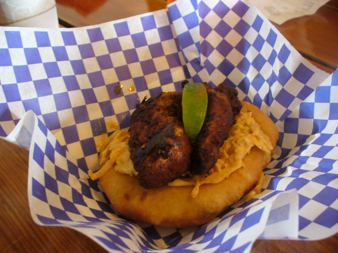 Icy Strait Point, Alaska, Huna Totem Corporation - huna fish tacos on fry bread.